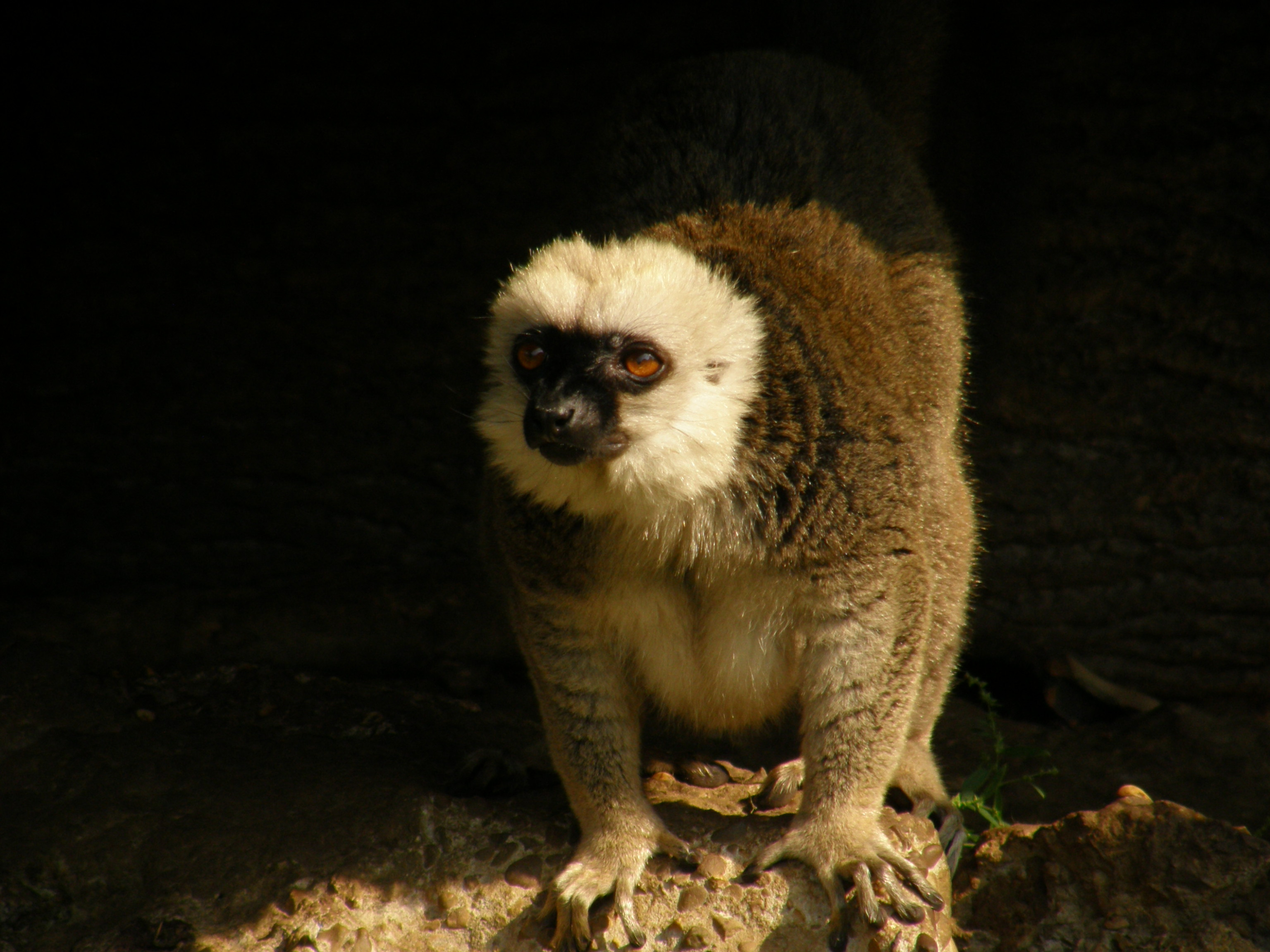 White-headed Lemur (Eulemur albifrons)in Olmense Zoo